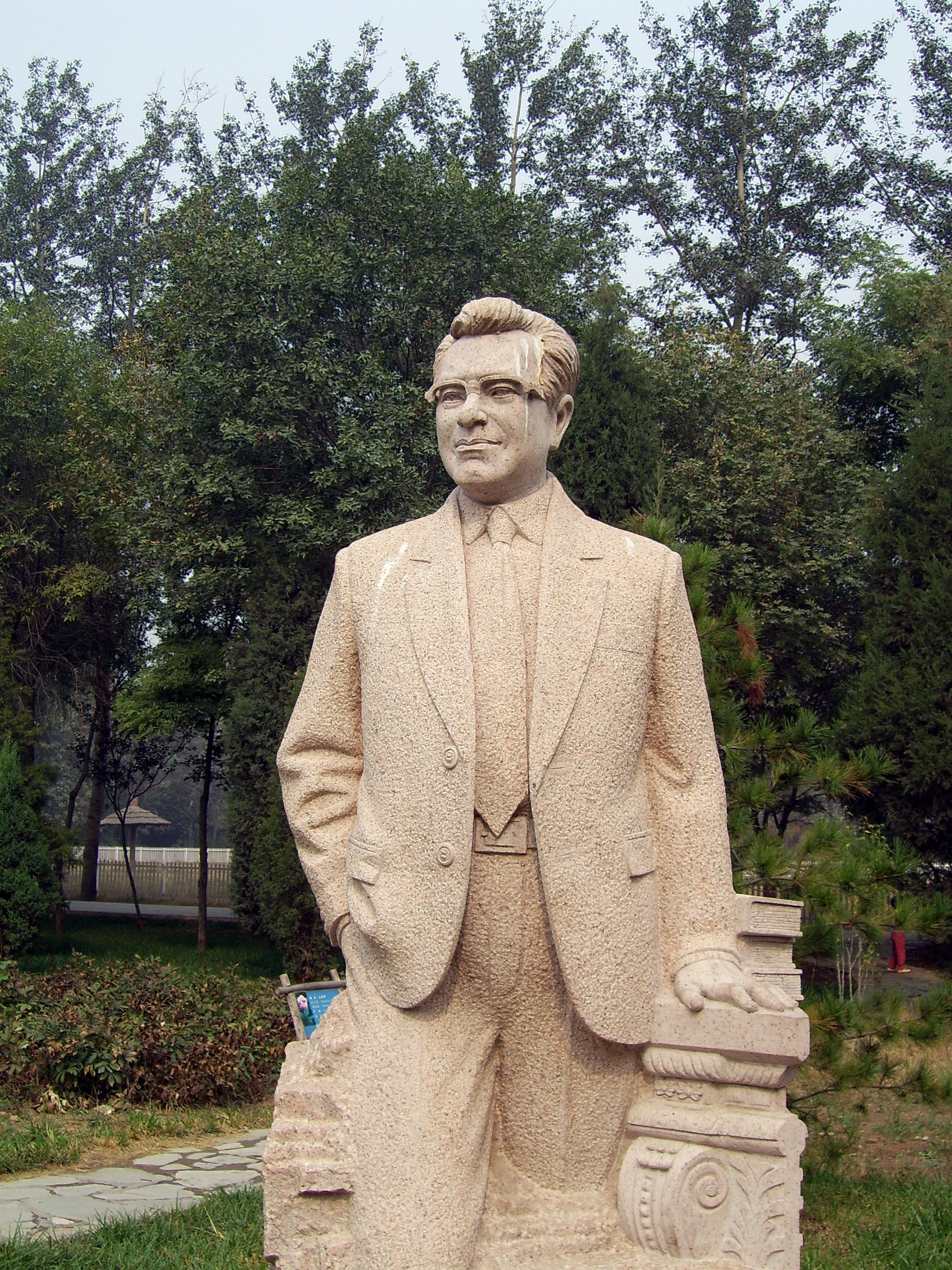 (Henry) Robin Ian Russell, 14th Duke of Bedford, of Woburn Abbey, Bedfordshire, where the deer park contains a herd of Pere David deer (also known as Milu Deer), native to China, but which became extinct there. The first time he heard the story of the Milu from his grandfather; The Milu was legally obtained by the French and British Missions in Beijing and sent to several European Zoos at the turn of the 19th century from where the 11th Duke of Bedford gathered them onto his estate and eventually saved them from extinction. The promise the 14th Duke made to himself at age 13 to, one day, return the Milu to China; his immense pride that four generations of the Bedford family managed, on their own, a successful captive breeding program that saved the Milu from extinction; and the reintroduction of the animal to its homeland when animal conservation and environmental issues were of little concern to most people in the world. He also spoke of his happiness in being able to pass the baton to his eldest son (Andrew, now the 15th Duke of Bedford) to continue in the footsteps of his ancestors; and his dream to see a free living population of Milu in China. Sadly he did not live to see his dream become reality as he passed away in 2003, aged 63, twenty years after he started discussion with Chinese authorities about the return of the Milu to China. In 2005, the Beijing authorities honoured the Duke’s memory by unveiling his statue at Nan Haizi during celebrations of the 20th Anniversary of the Milu reintroduction in the presence of his widow, Henrietta, Dowager Duchess of Bedford, and his three children, Andrew, 15th Duke of Bedford, Lord Robin Russell and Lord James Russell. It is very unusual for Chinese authorities to honour a foreign national in such a way and it showed the deep respect and immense gratitude that they felt for him and his family. (